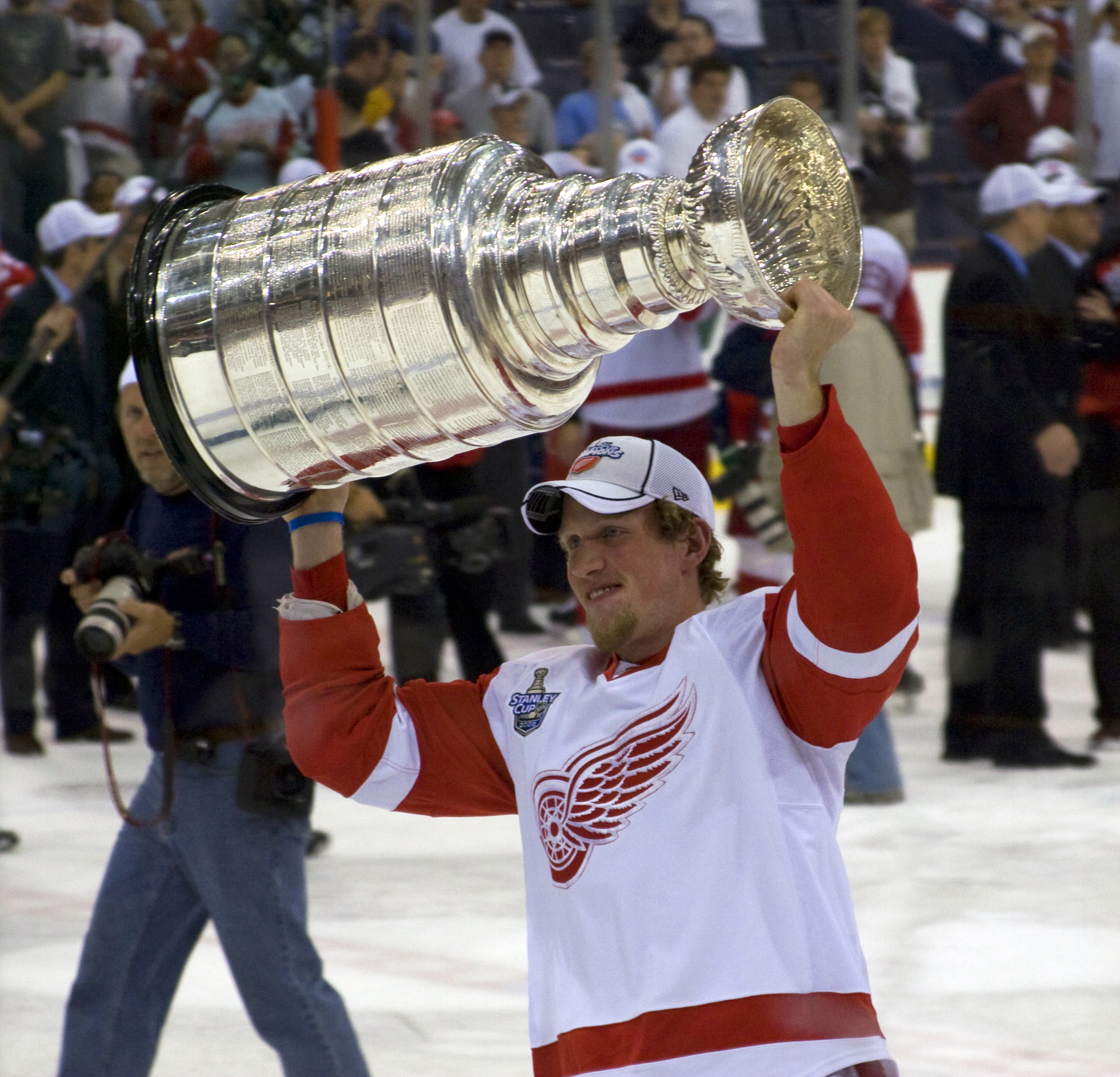 Justin Abdelkader of The Detroit Red Wings hoists the Stanley Cup.